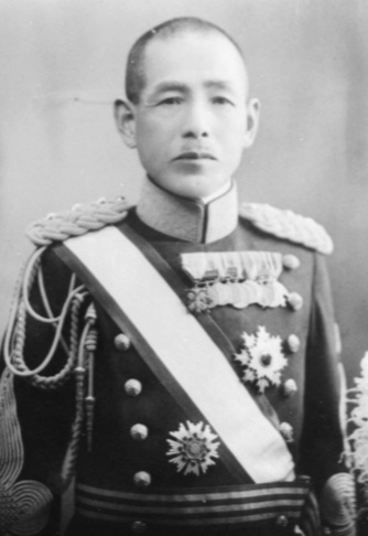 Image of Japanese Field Marshal Shunroku Hata